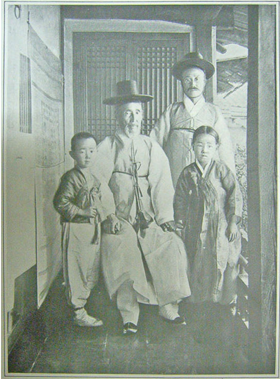 Yun Chi-ho's family, Yun Young-sun(Yun Chi-ho's Son), Yun Ung-ryeol(Yun Chi-ho's father), Yun Chi-ho, Helen Yun(ather name call Yong-hee, daugther of Yun Chi-ho)